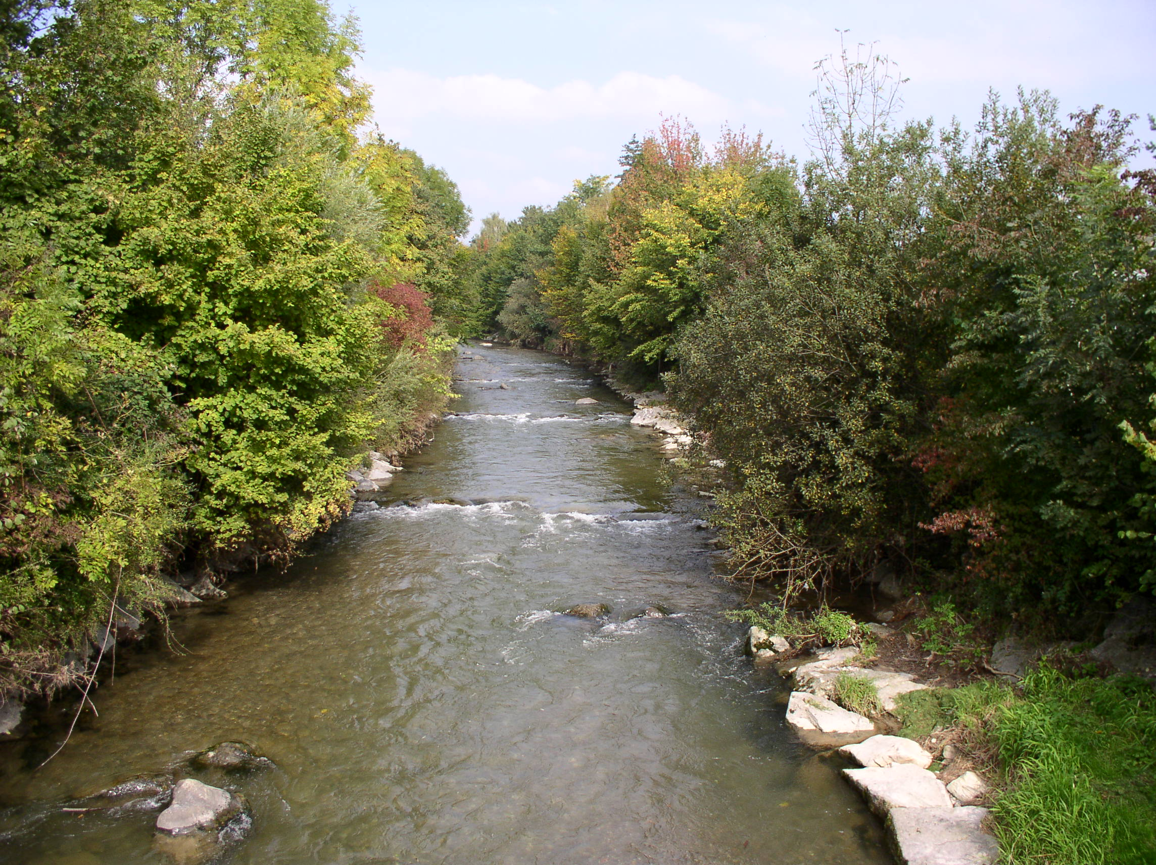 Description: Lorze in Zug auf Höhe der General-Guisan-Strasse Source: photo taken by me, October 2005 Photographer: Baikonur